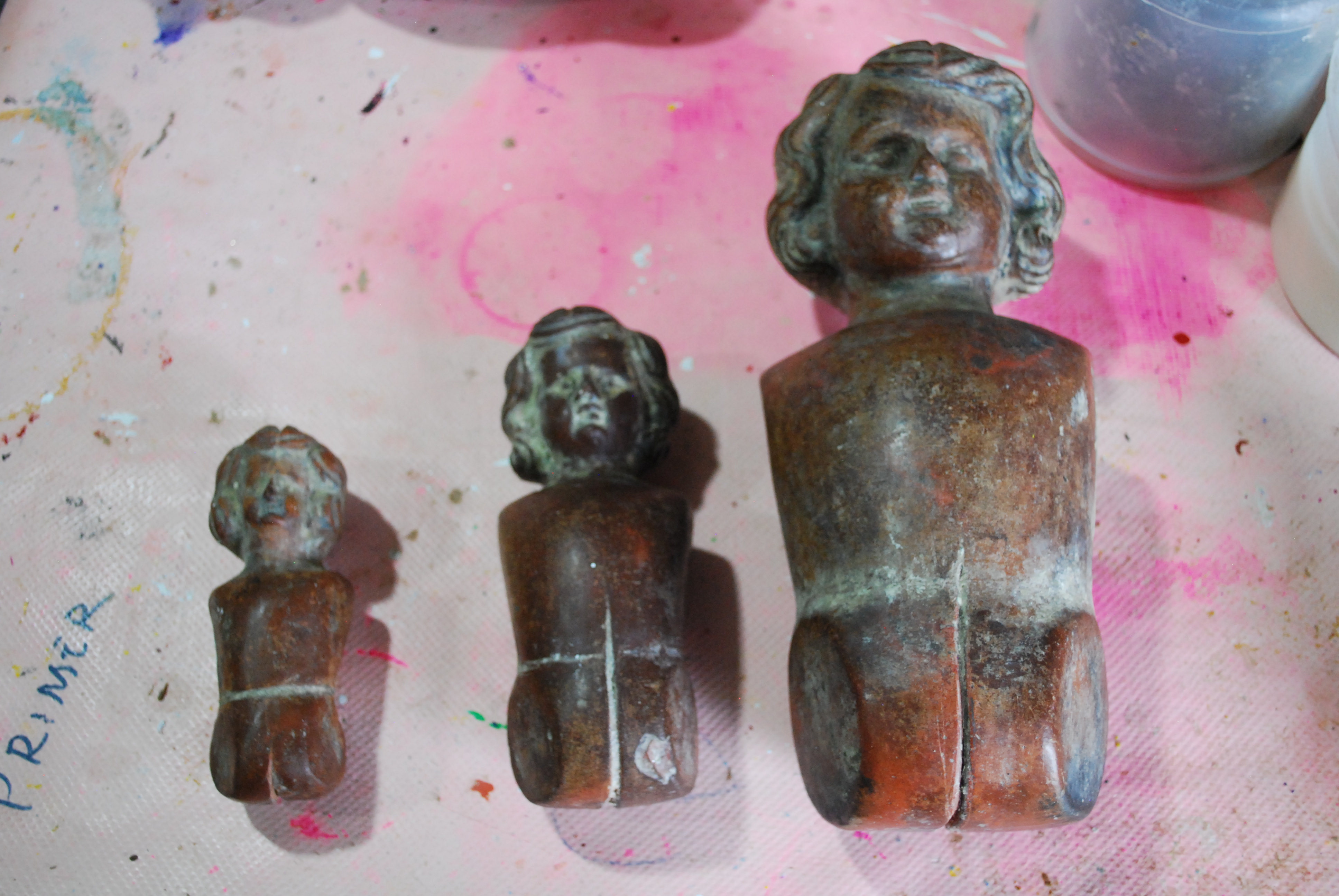 Early 20th century clay molds for making cartoneria dolls at the workshop of Sotero Lemus in Ciudad Neza, State of Mexico